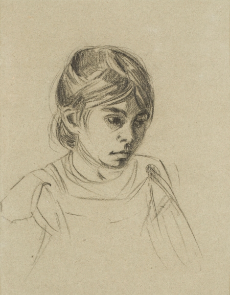 Portrait of a gypsy girl, etude. Charcoal on paper. Diameter 31 x 24 cm